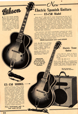 1939 or 1940 Gibson magazine advertisement layout.